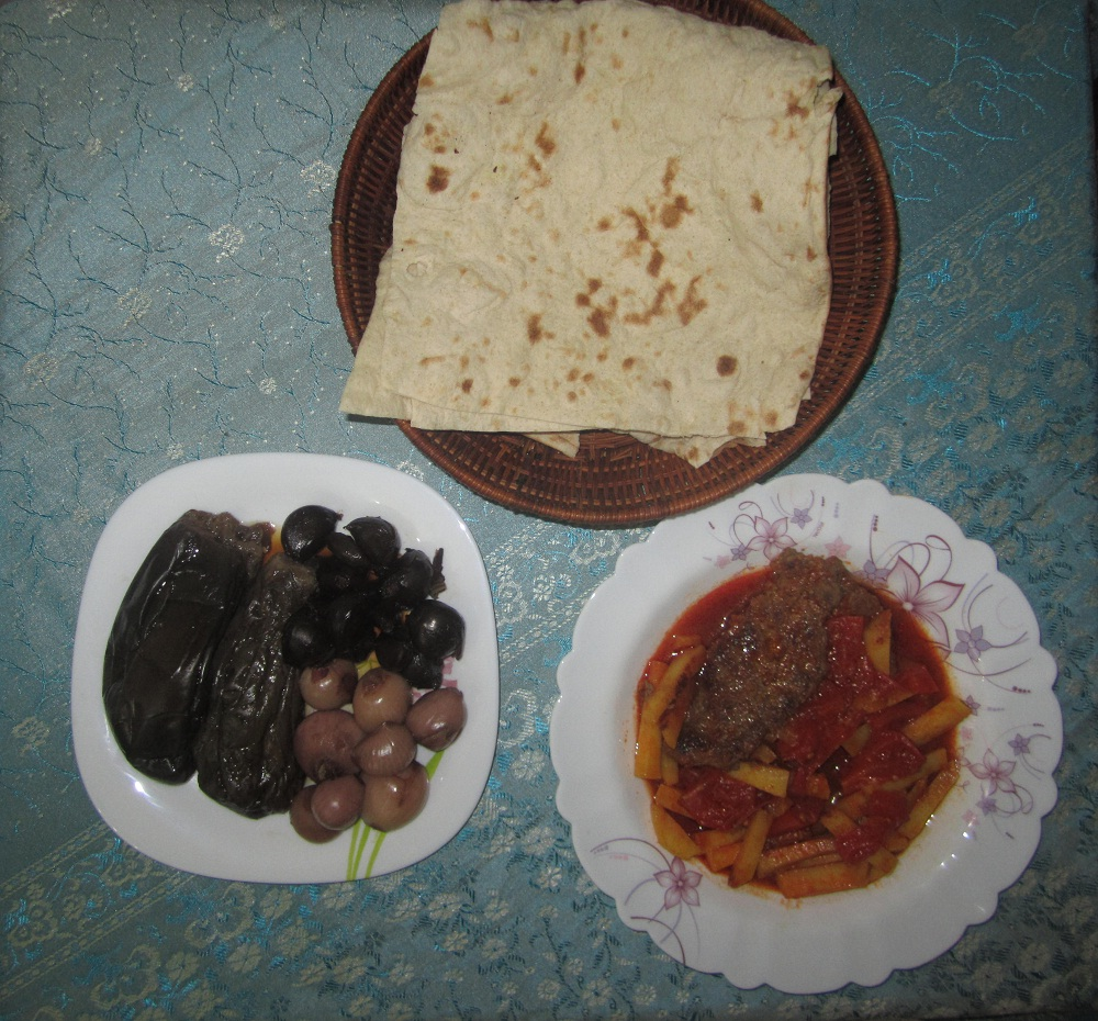 tah tali is a Traditional food in arak city